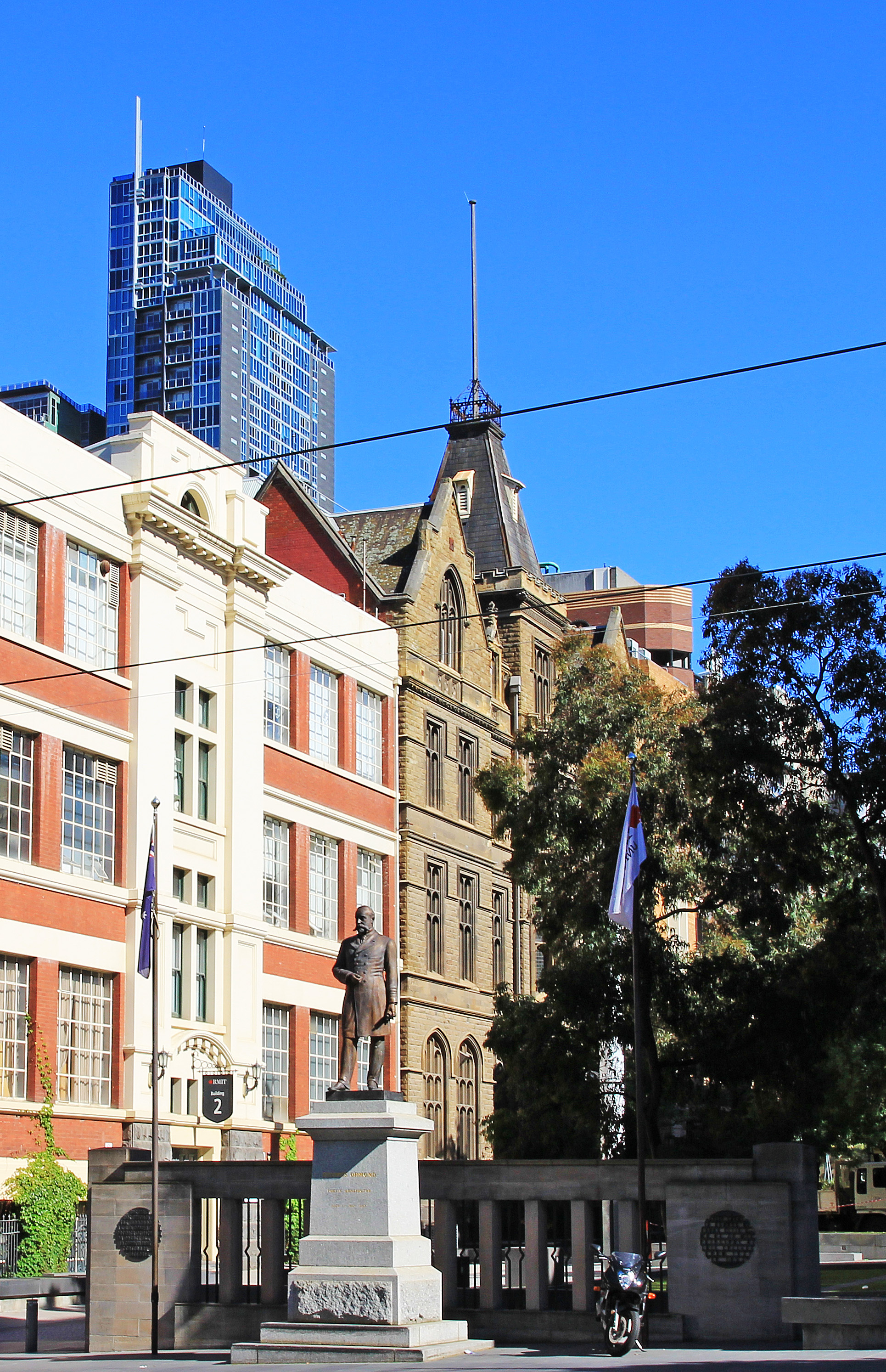 Category:Images of buildings and structures in Melbourne